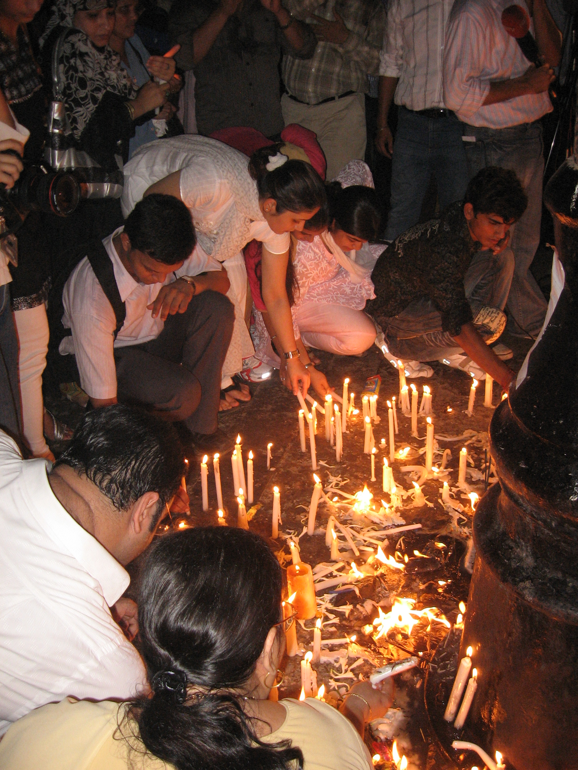 Protest meet at the Gateway of India to mark solidarity with the victims of the November 2008 Mumbai attacks